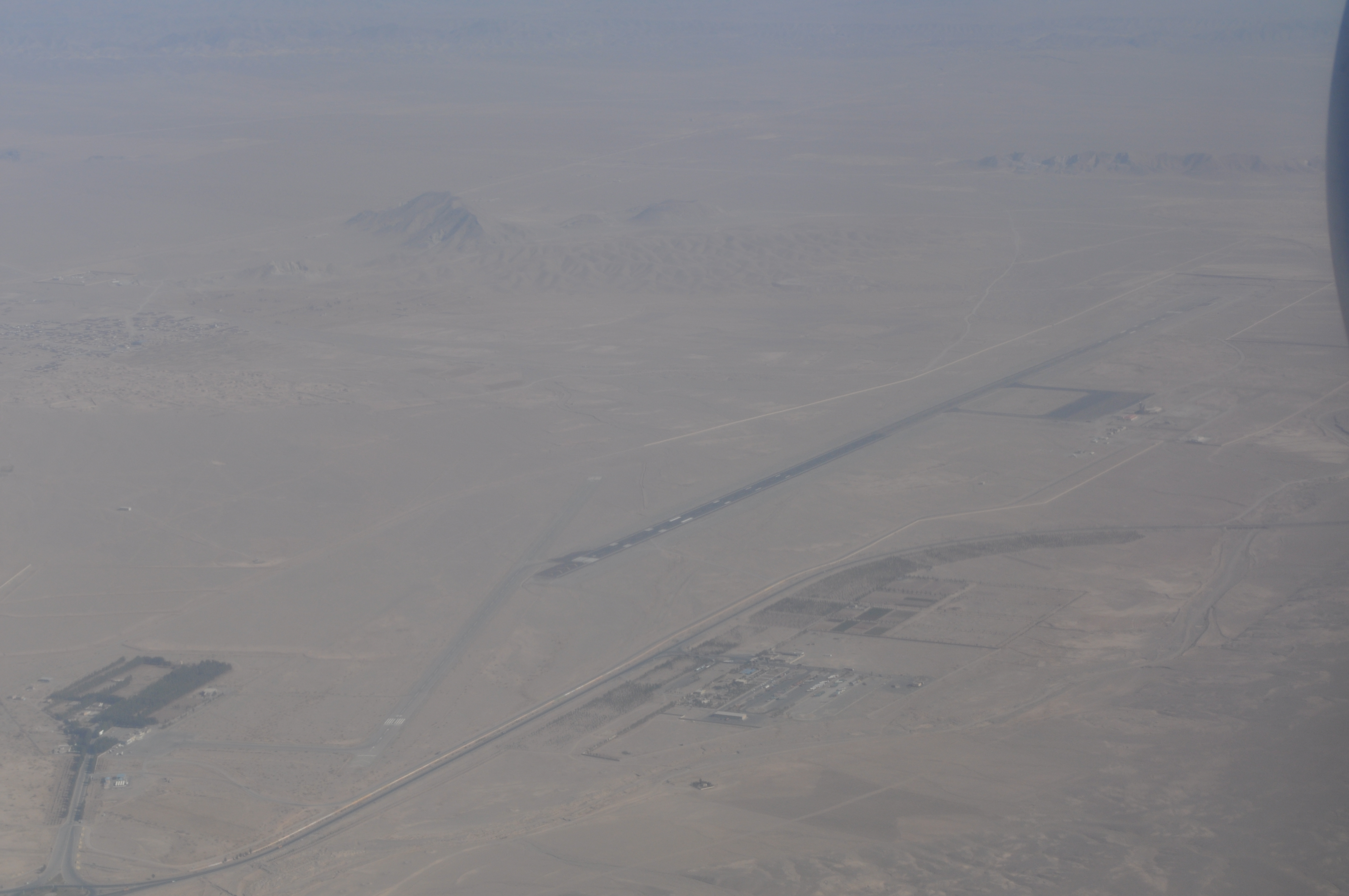 Birjand Airport from above